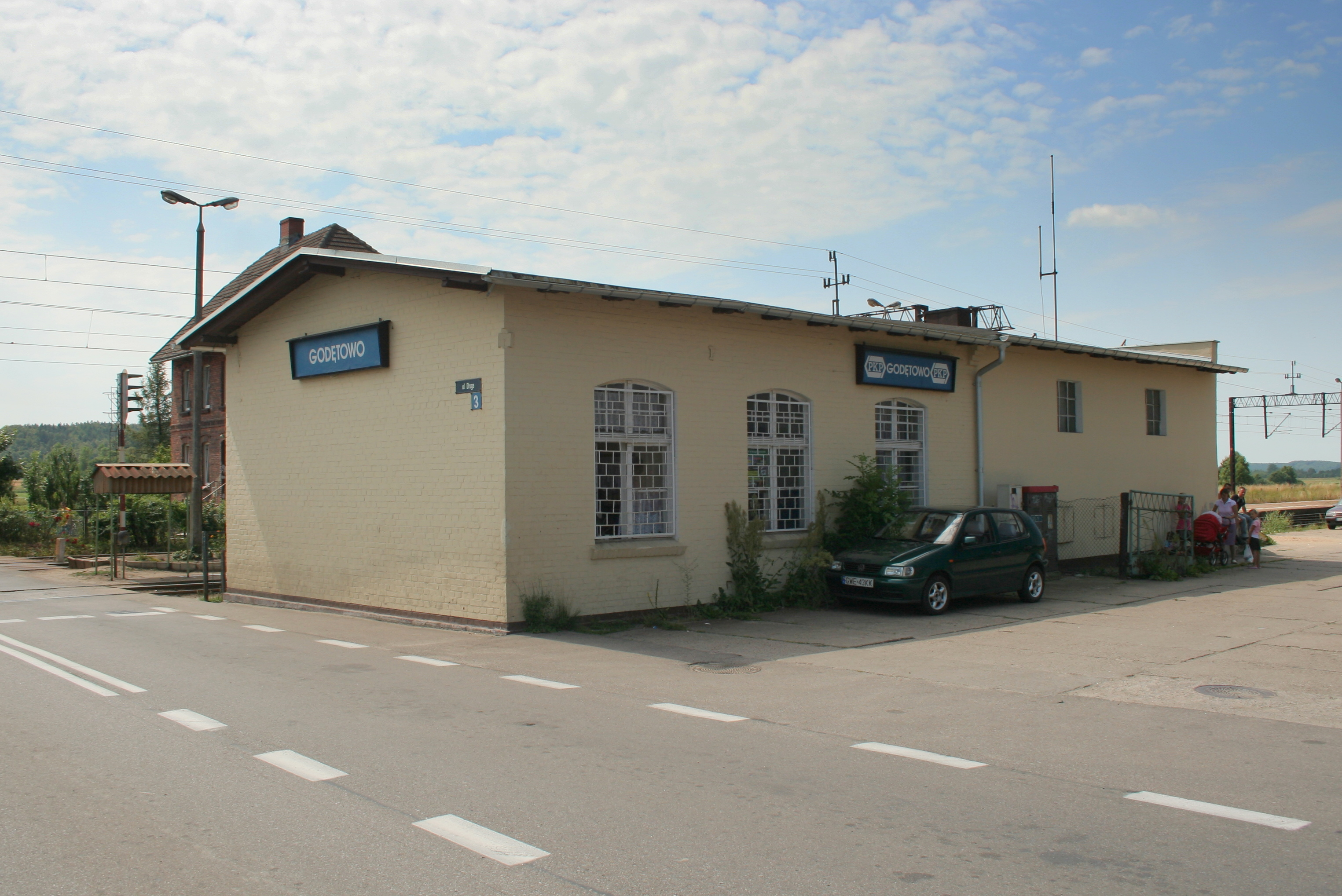 Train station in Godętowo.